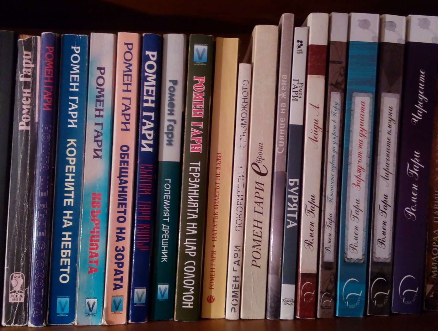 A (not exhaustive) collection of books by Romain Gary, translated and published in Bulgarian.